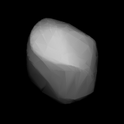 3D convex shape model of 771 Libera, computed using light curve inversion techniques. J. Hanuš, J. Ďurech, M. Brož, B. D. Warner (June 2011). "A study of asteroid pole-latitude distribution based on an extended set of shape models derived by the lightcurve inversion method". Astronomy and Astrophysics 530: A134. ISSN 0004-6361. arXiv